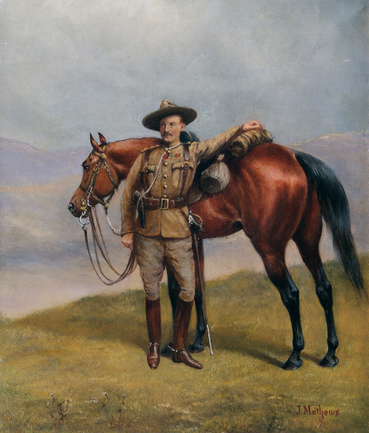 Mathews (Major), John Edward Chapman 'Chester'; Baden-Powell in the Uniform of the South African Constabulary, Standing by His Charger; The Scout Association